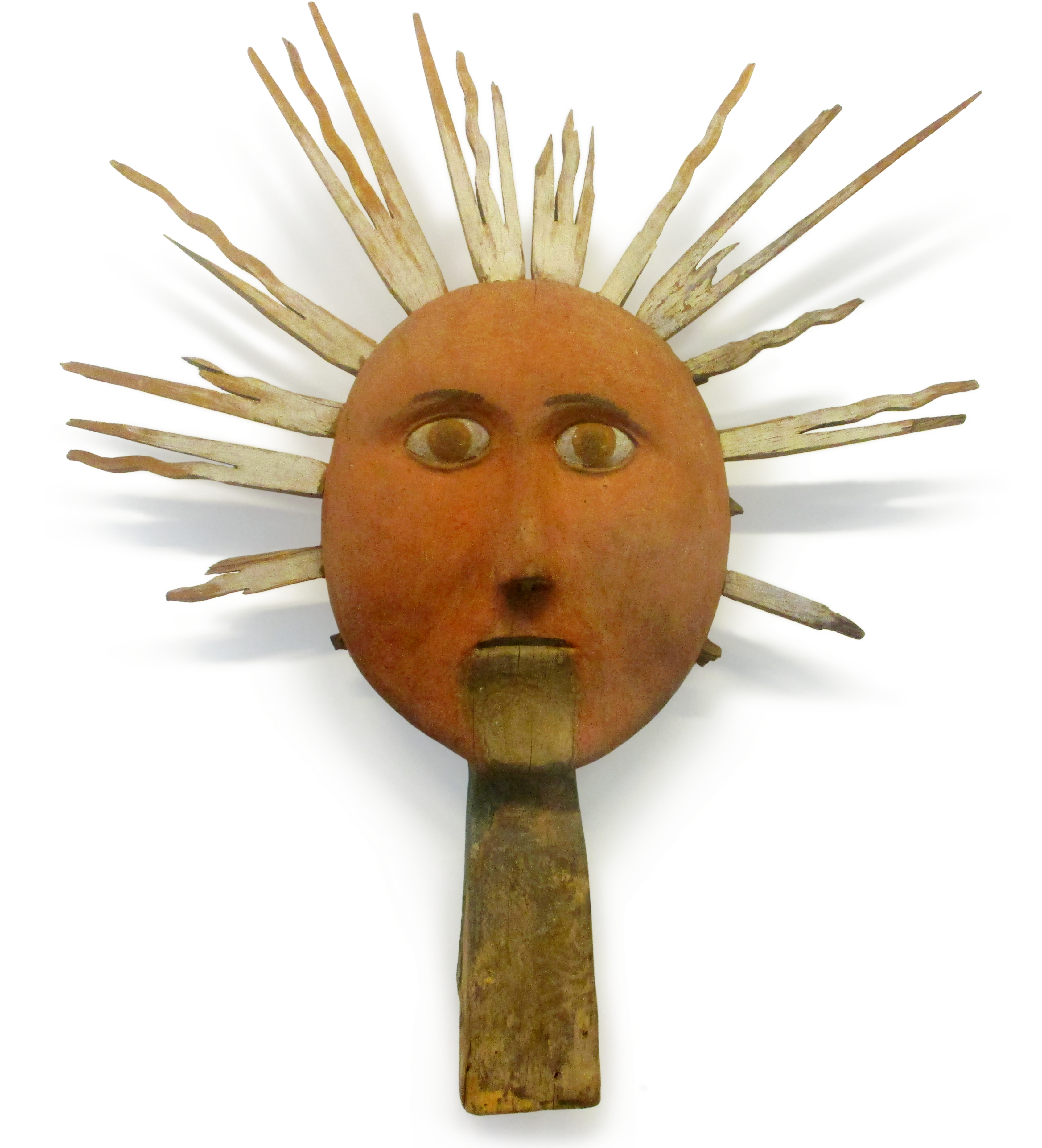 Early 20th century idol of mythological Saulé from Palūšė, Ignalina District. Currently located at the National Museum of Lithuania.